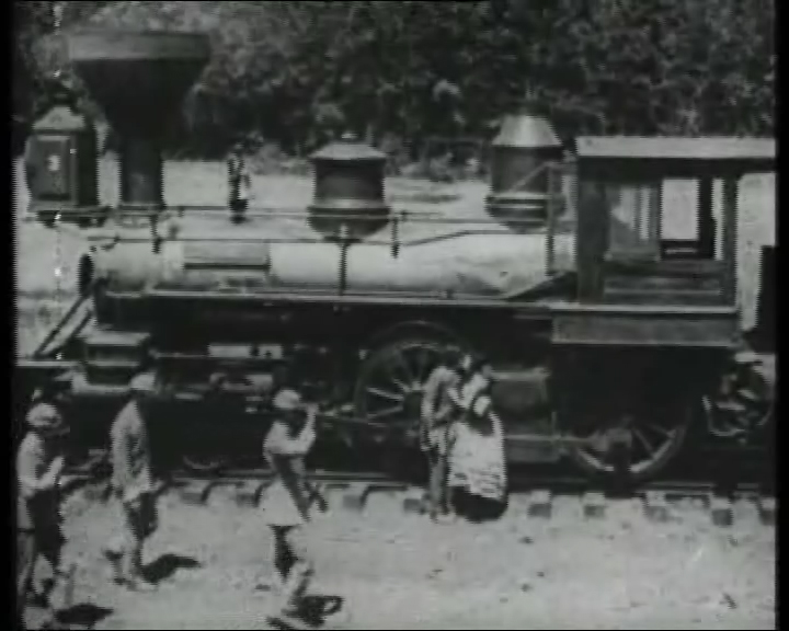 Scene from the movie The General. 1926.